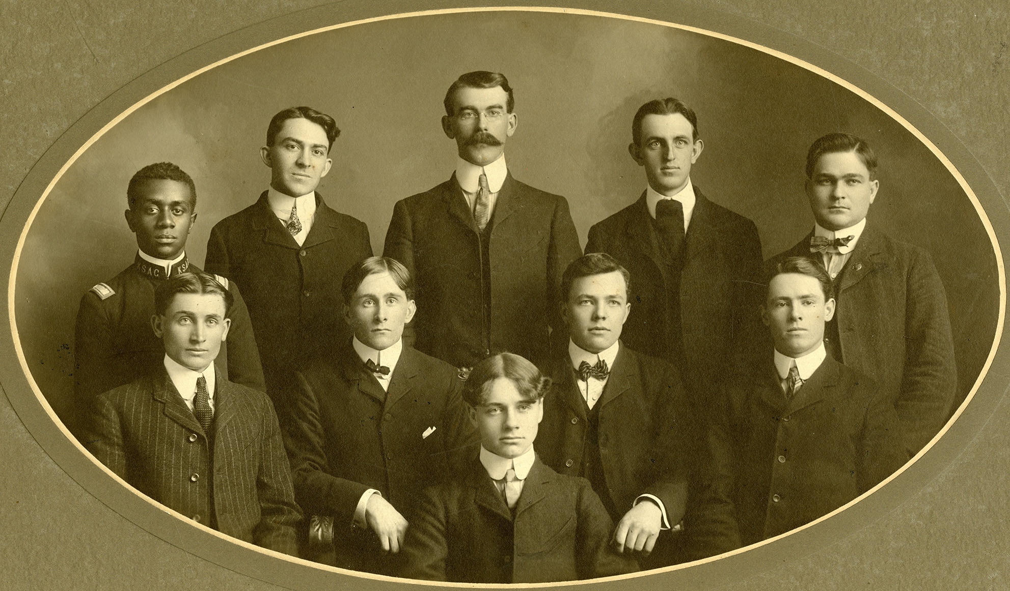 Mechanical engineering students in a racially-integrated class at Kansas State Agricultural College in 1904.